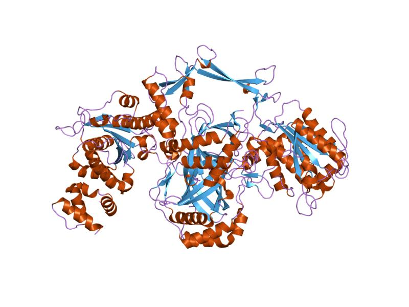 Cartoon representation of the molecular structure of protein registered with 1jeq code.